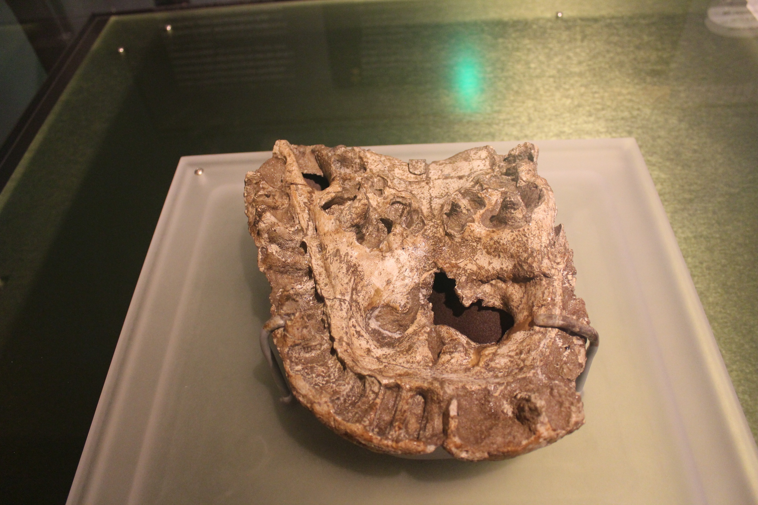 The skull of Kryostega on display at the Field Museum of Natural History's exhibit "Antarctic Dinosaurs".